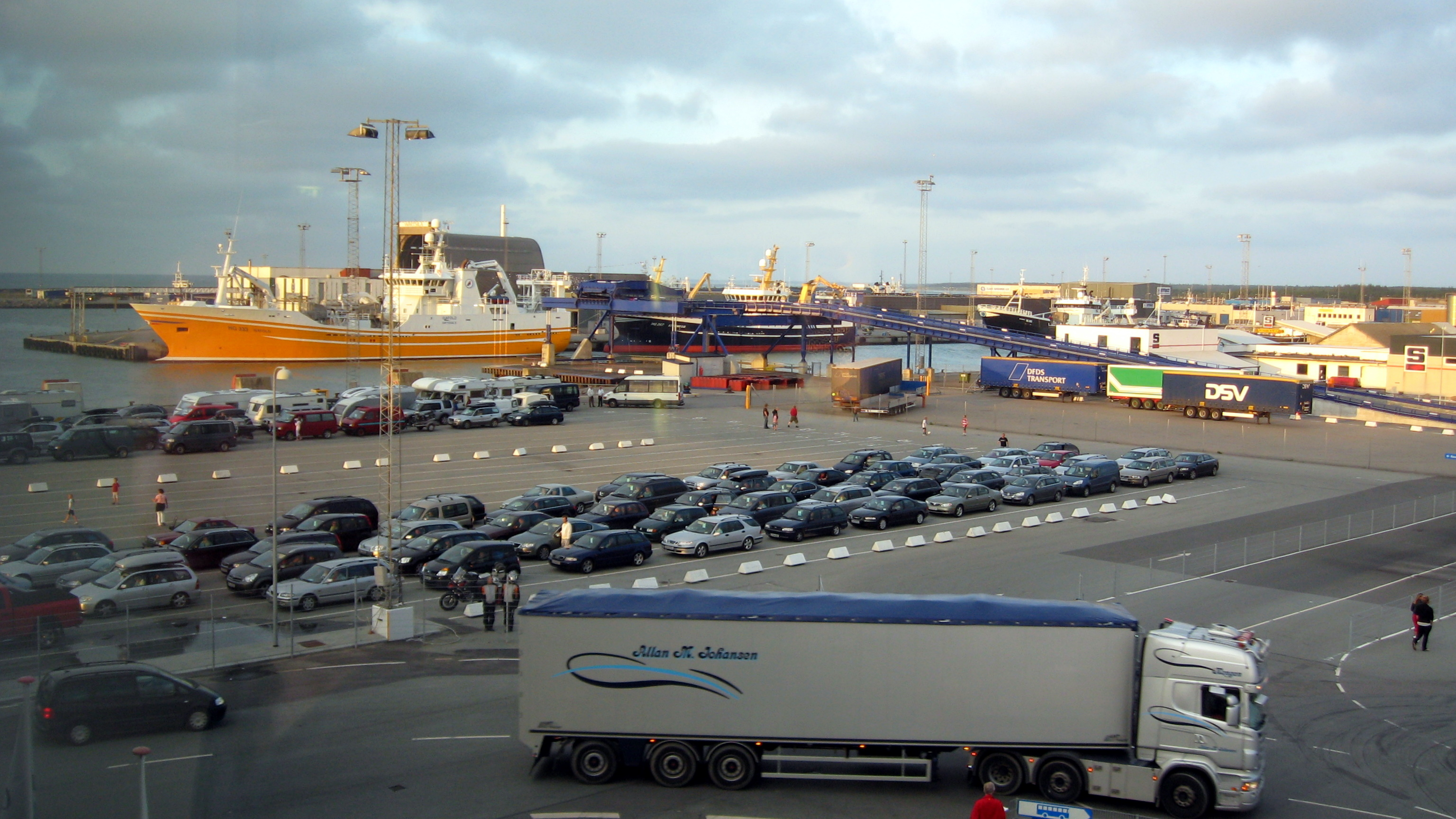 Port of Hirtshals, Denmark // The orange ship in the background: HG 333 ISAFOLD; IMO 9350616